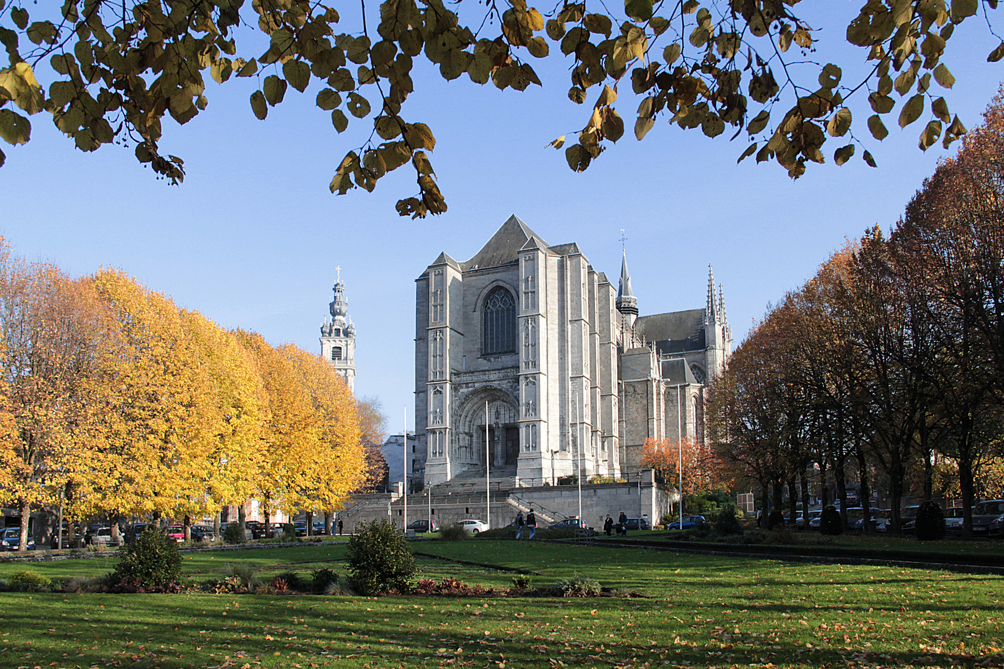 Mons (Belgium), the Sainte-Waudru collegiate church and the belfry (XV/XVIIth centuries).